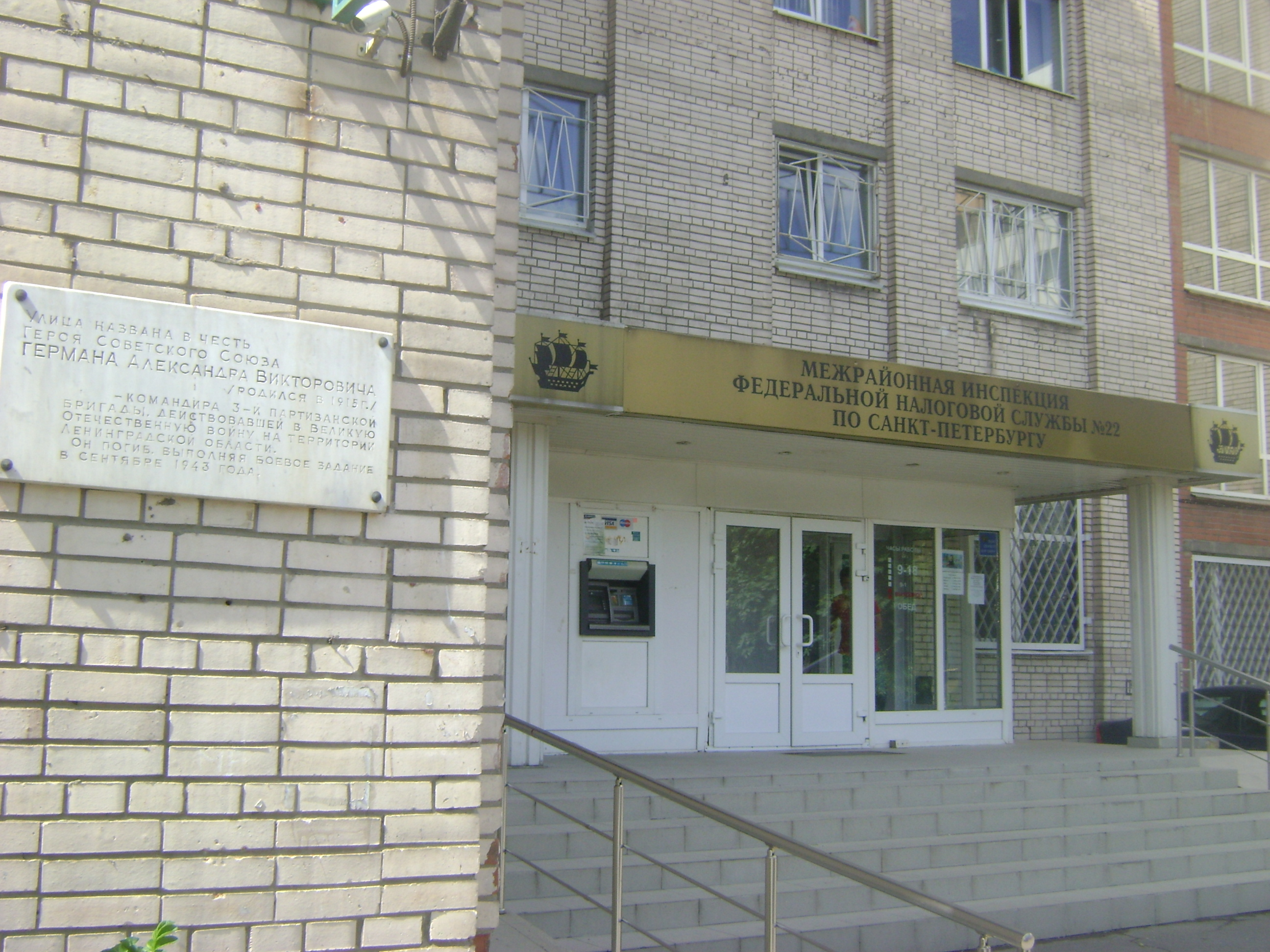 Partisana Germana Street memorial board